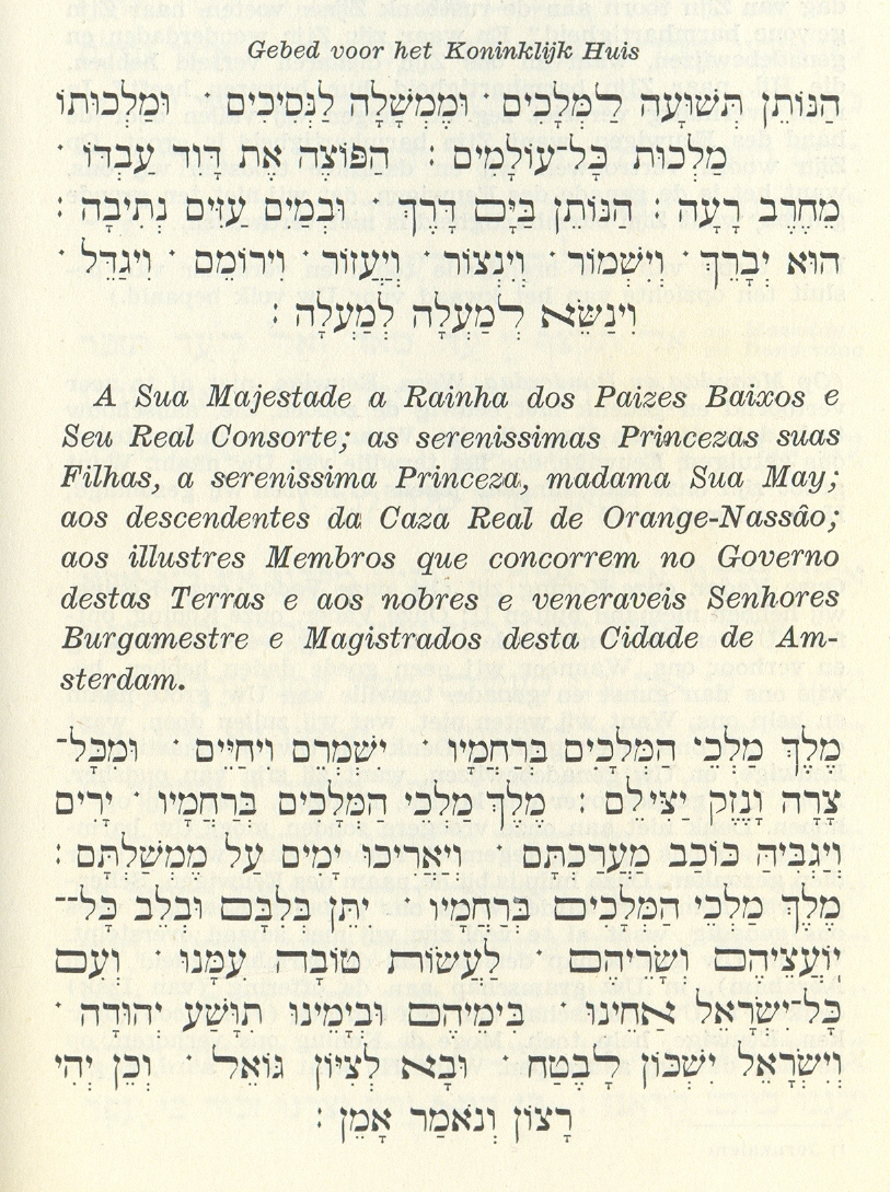 part of a Jewish prayer for the Dutch Royal house